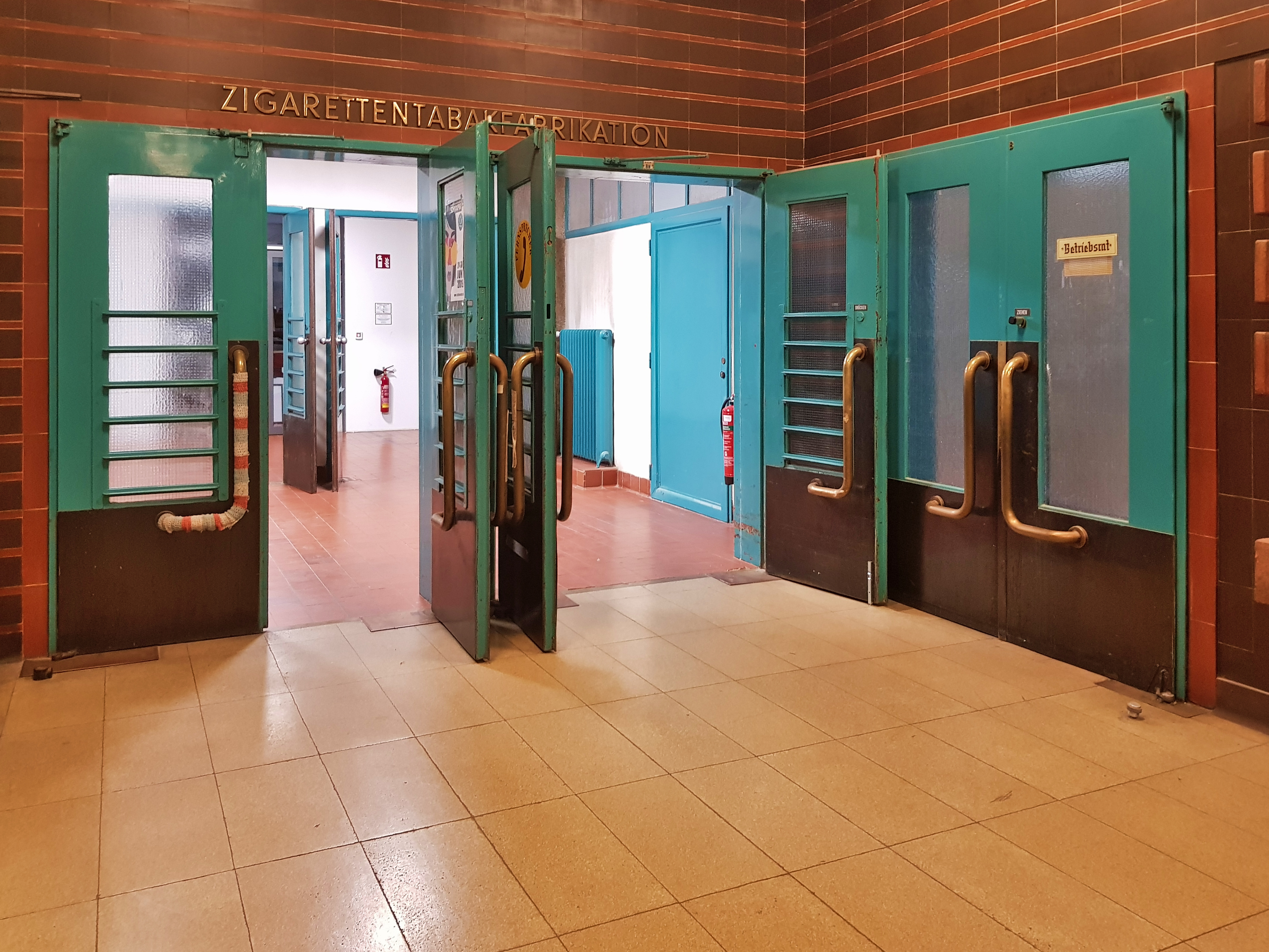 Linz Austria Tabakwerke